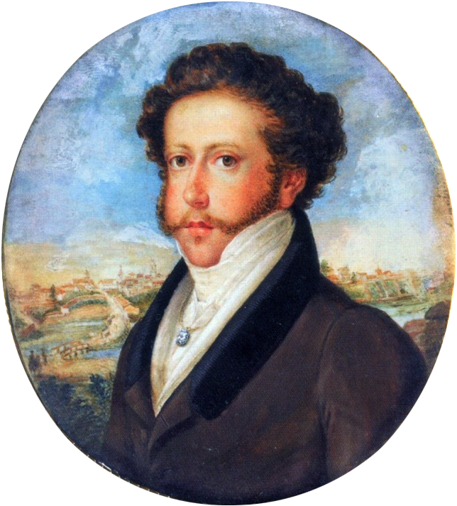 Emperor Dom Pedro I (then-Prince Pedro) in São Paulo, August-September 1822